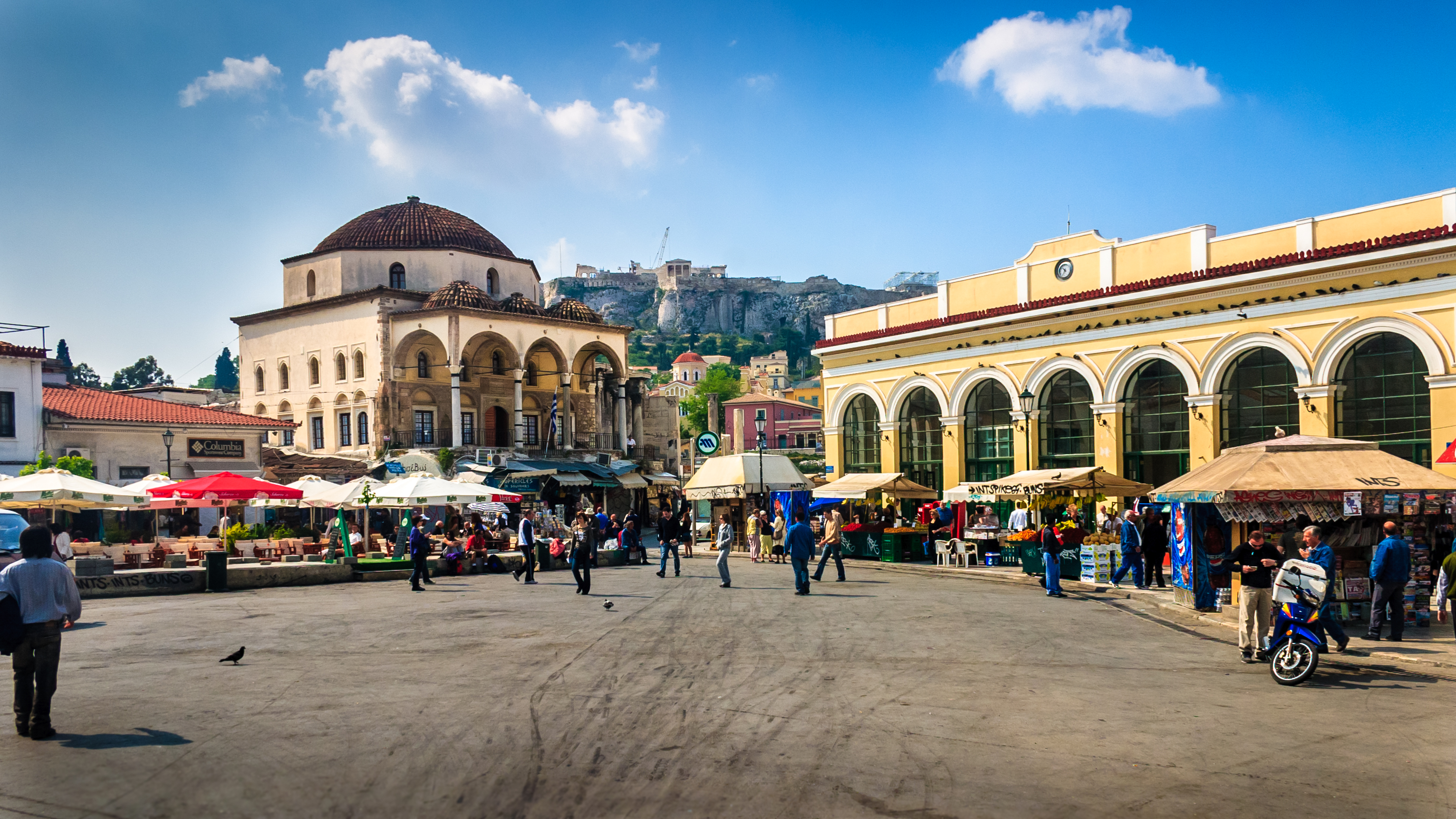 Monastiraki square and station, Athens, Greece.